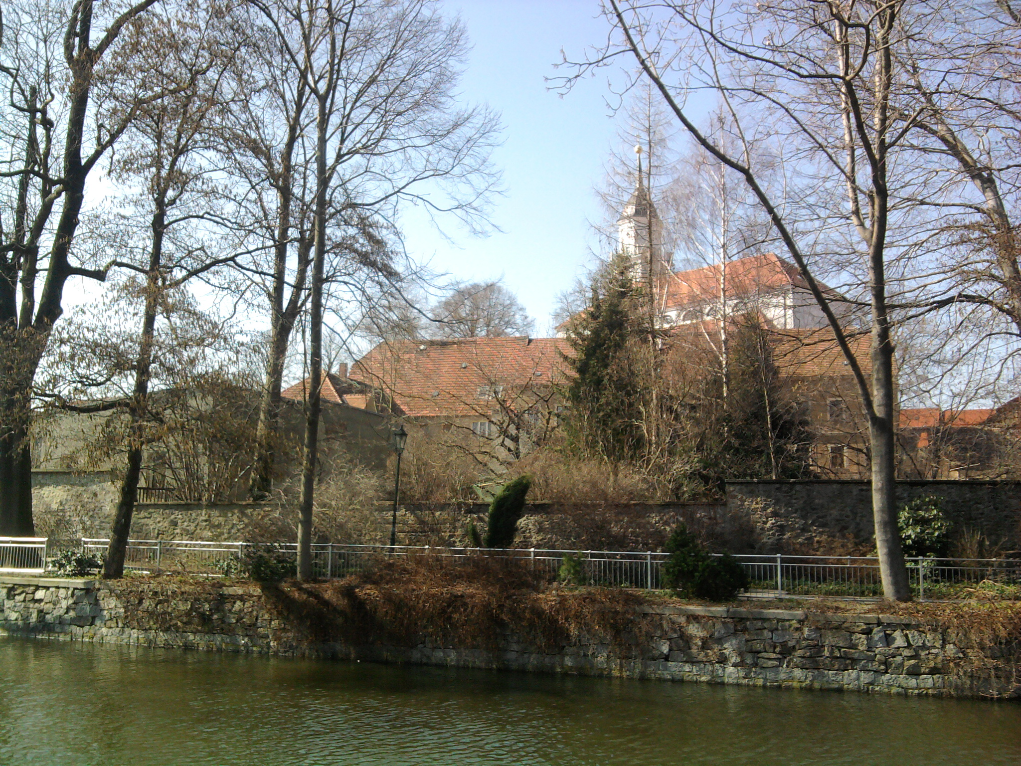 Church Christuskirche in Bischofswerda, architect Gottlob Friedrich Thormeyer, in front birthplace of composer Johannes Pache (left wing of the building)